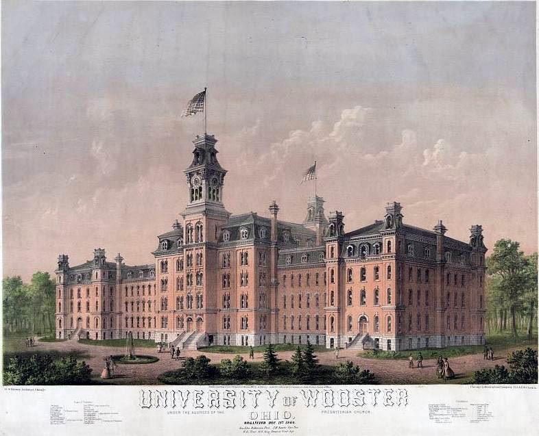 University of Wooster, Ohio, organized Dec. 18th 1866, under the auspices of the Presbyterian Church